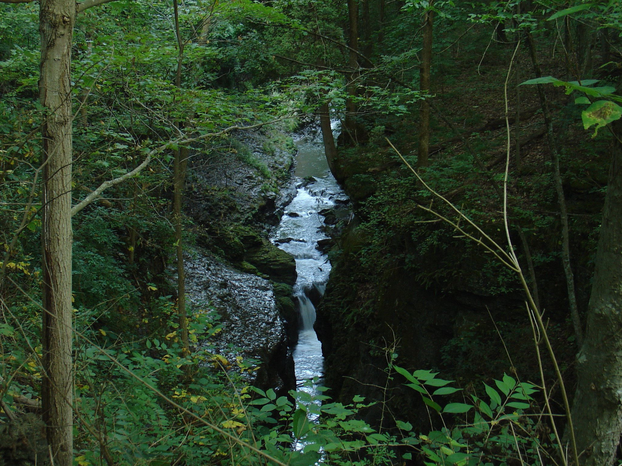 Photographer: Matt Kozlowski This is the Little Miami River as it passes through Clifton Gorge near Clifton, Ohio and John Bryan State Park. This image was sharpened using the GIMP because of blurriness. The photo was taken near dusk and the author almost was trapped in the woods after dark, if it hadn't been for the compassion of a friendly family passing through the State Park.